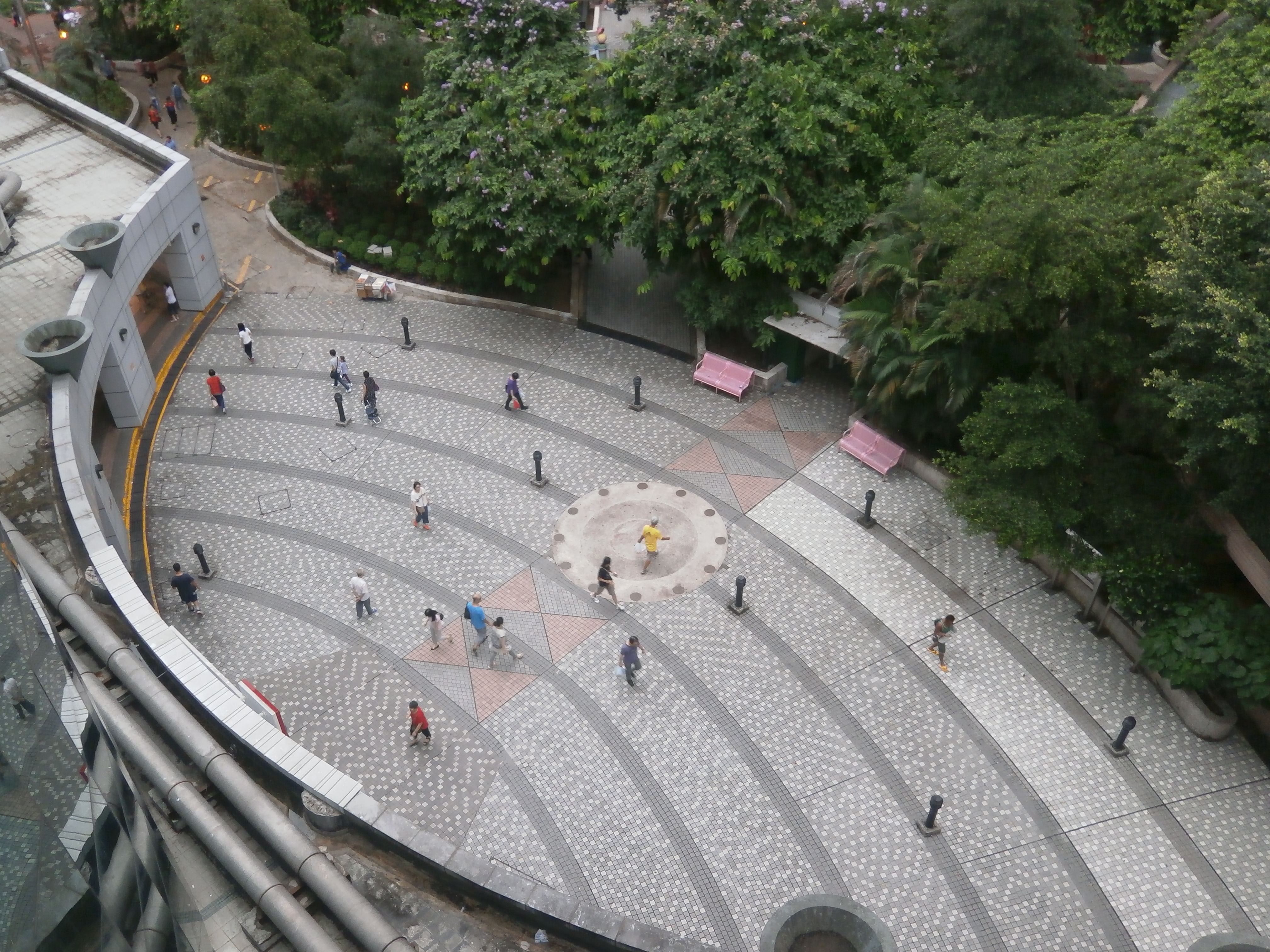 Sheung Tak Plaza Chinese Zodiac square